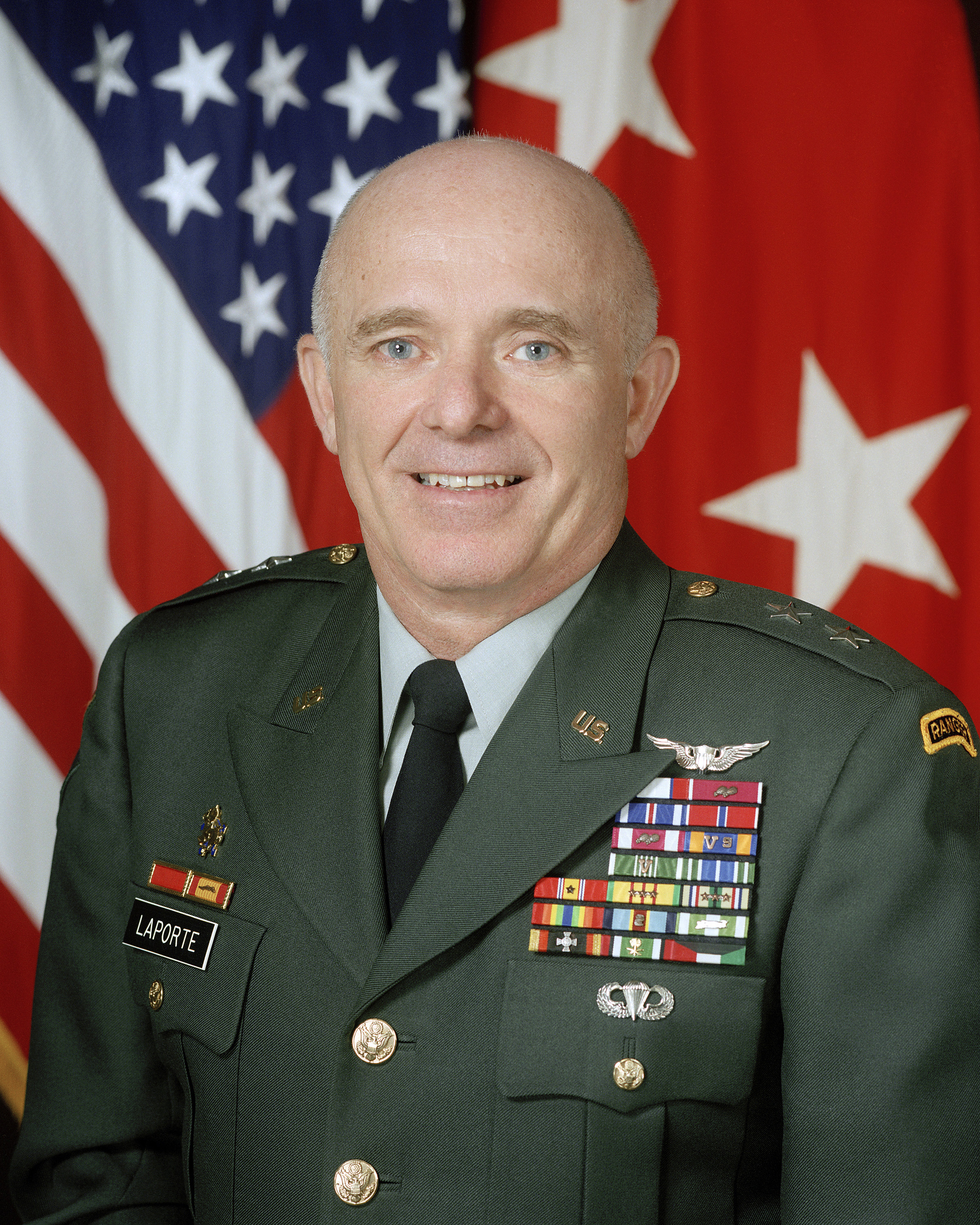 Portrait of U.S. Army Maj. Gen. Leon J. LaPorte, (Uncovered), (U.S. Army photo by Mr. Scott Davis) (Released) (PC-193033), VIRIN: 980708-A-3569D-001